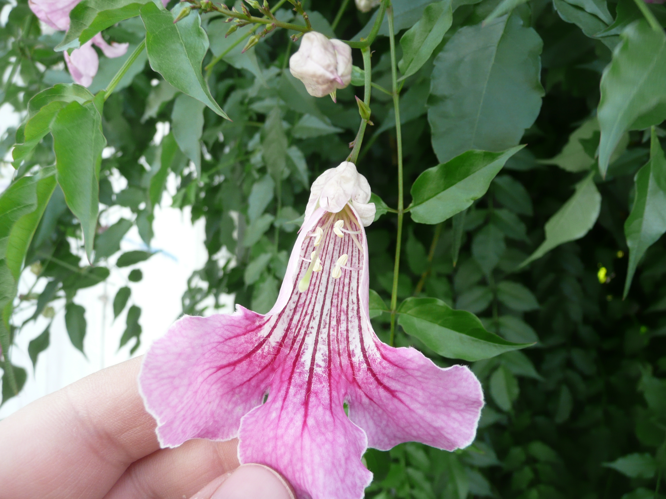 Trenque Lauquen, Buenos Aires province, Argentina.